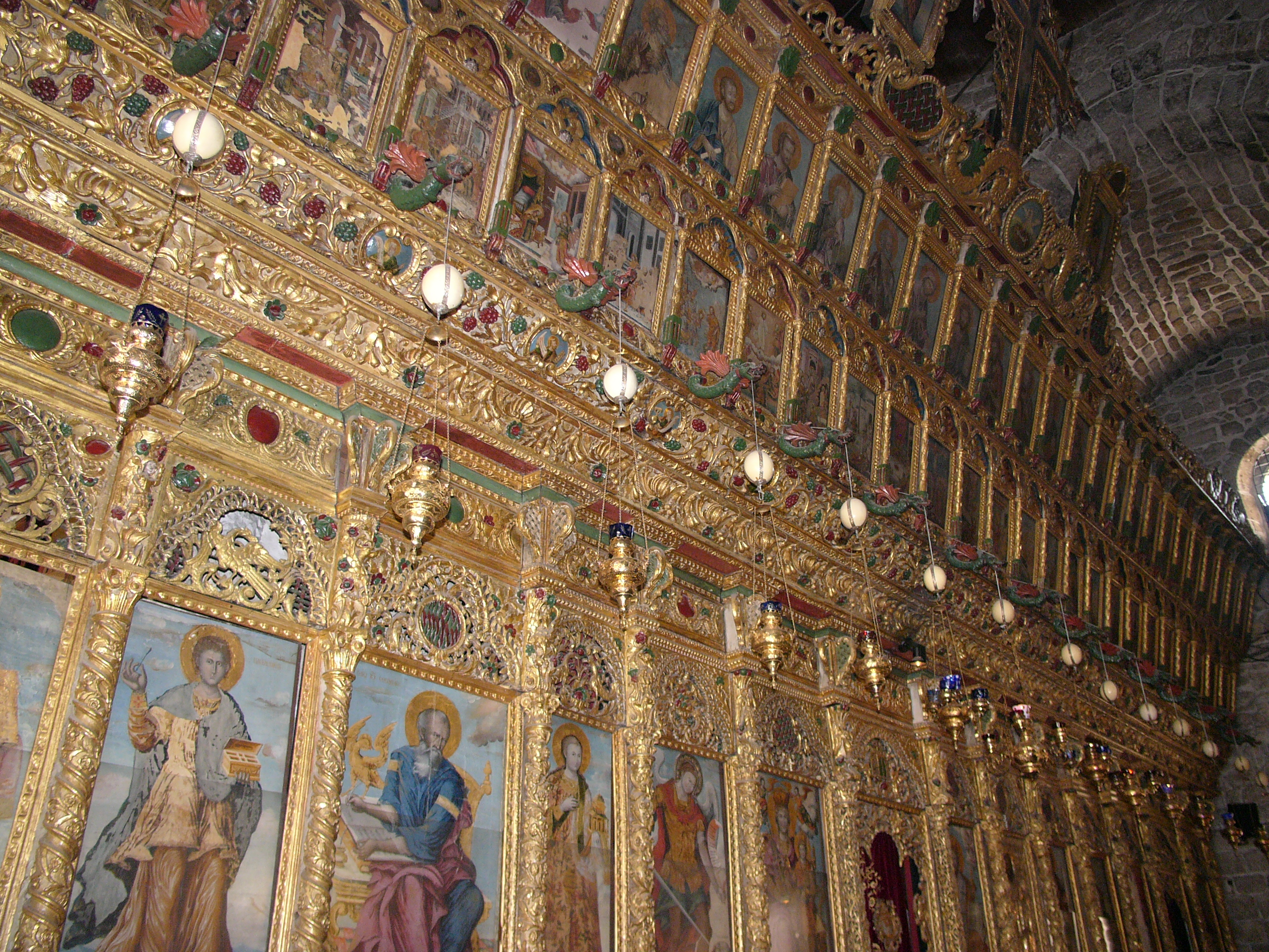 Iconostasis in Lazarus Church, Larnaca on Cyprus